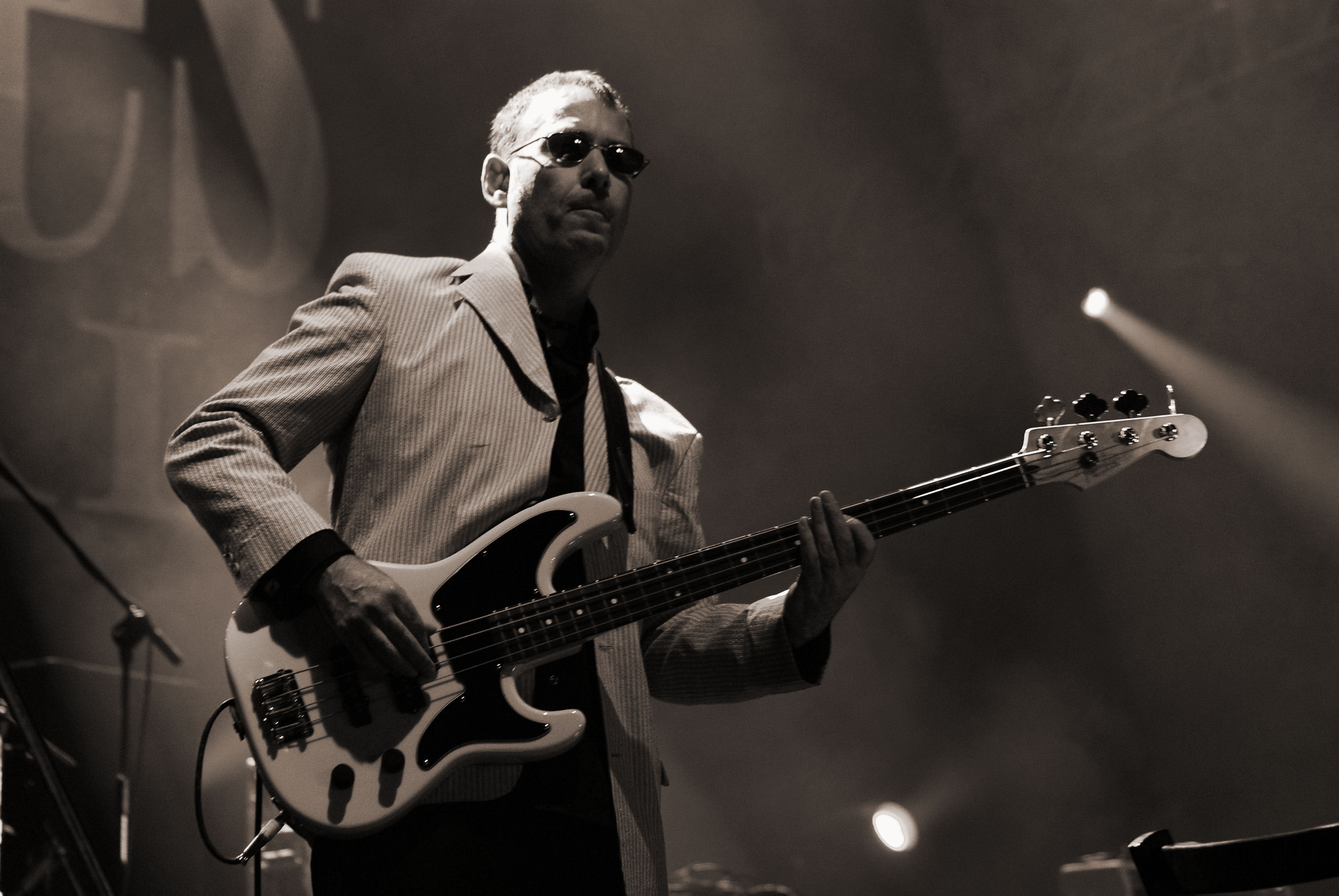 Derek White from Storm Warning during 27. edition of Rawa Blues Festival